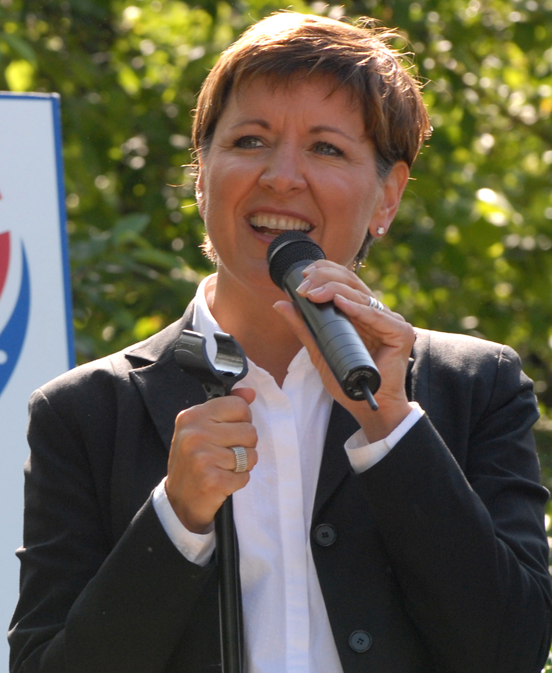 Allison Barber, U.S. Deputy Assistant Secretary of Defense for Internal Communications addressing the crowd at the opening ceremony of the PGA Tour fundraiser for America Supports You home-front groups at Tournament Players Club at Avenel, Potomac, Md.